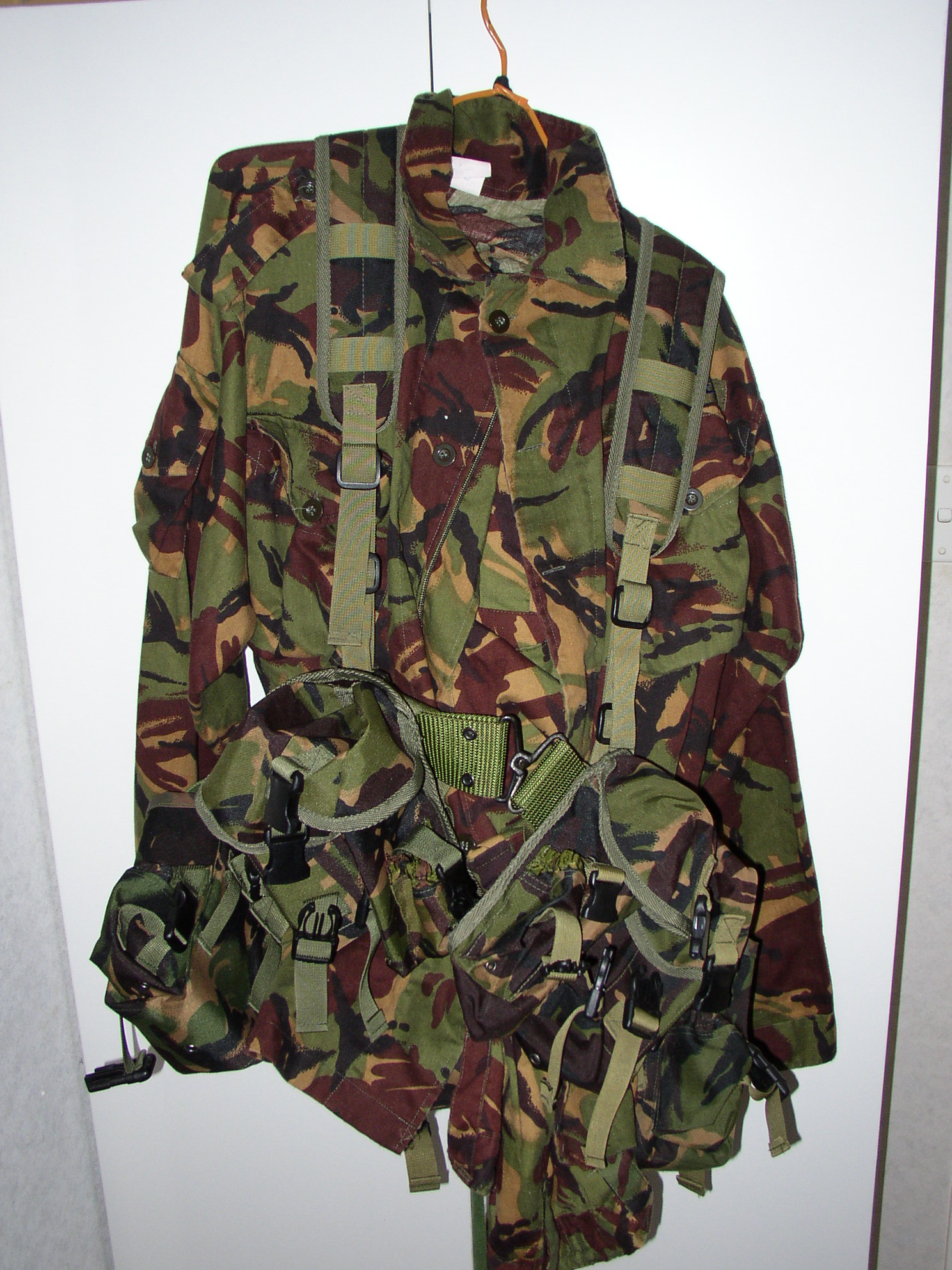 Photo taken myself.